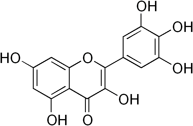 chemical structure of myricetin